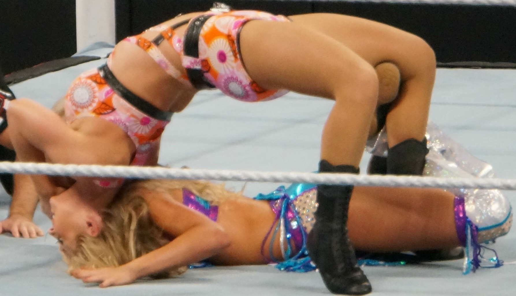 Emma performing her signature maneuver "Emma lock" on Summer Rae during a WWE Raw live show in April 2014.